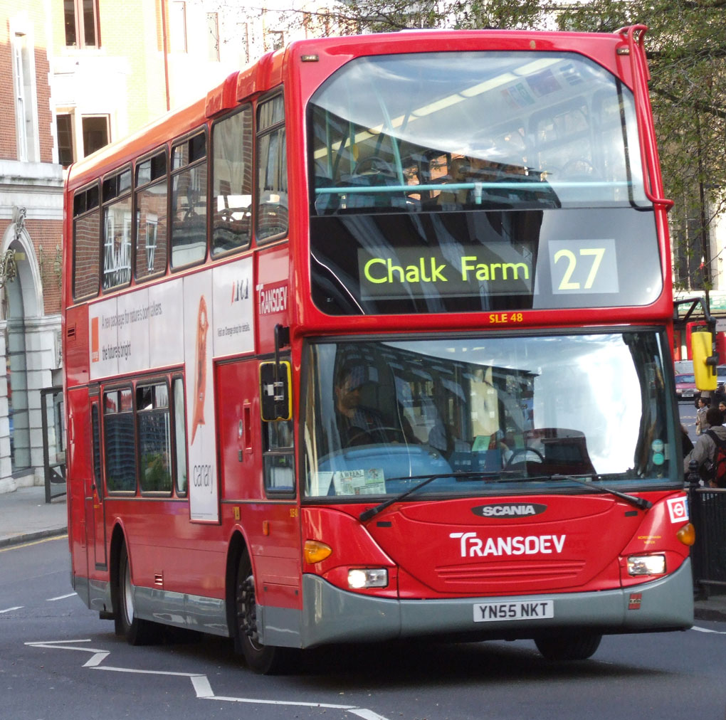 Scania OmniDekka 447 for Transdev, Kensington Church Street, London, 29 April 2006. Picture taken by me, Thomas Blomberg. This picture can be found in gallery Scania AB